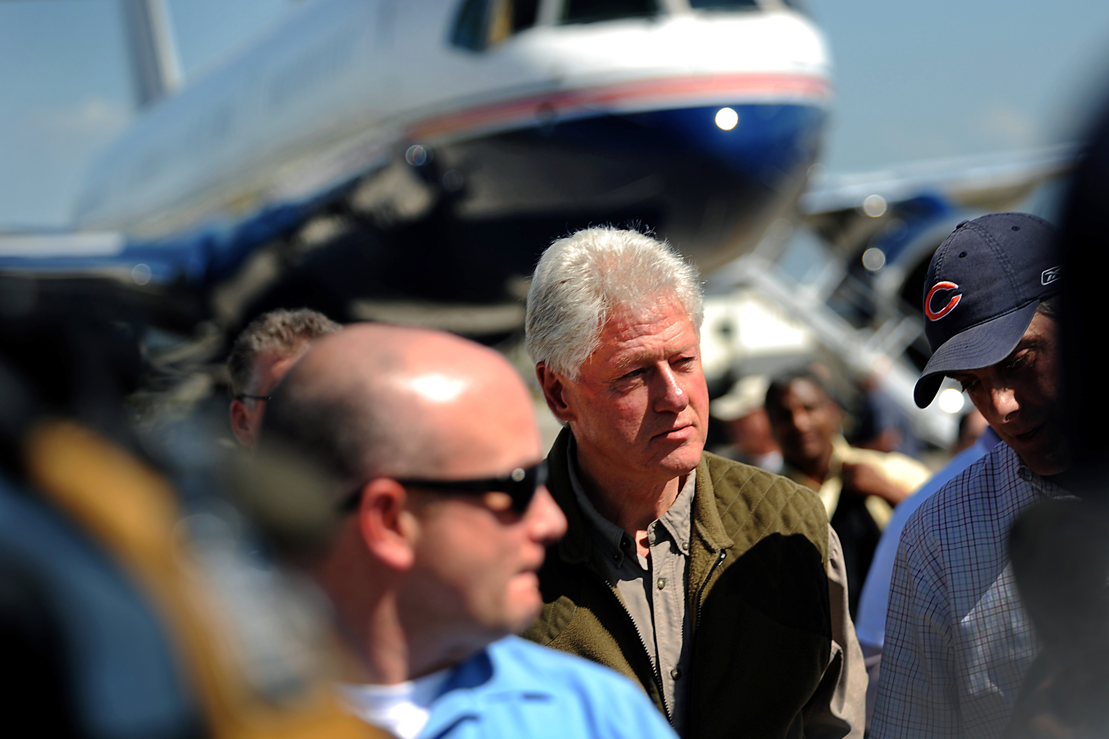 Former President Bill Clinton visits Port-au-Prince, Haiti, Jan. 18, 2010. As the U.N. envoy to Haiti, Clinton is surveying relief efforts and the damage caused by the Jan. 12, 2010, earthquake. VIRIN: 100118-F-1644L-213c